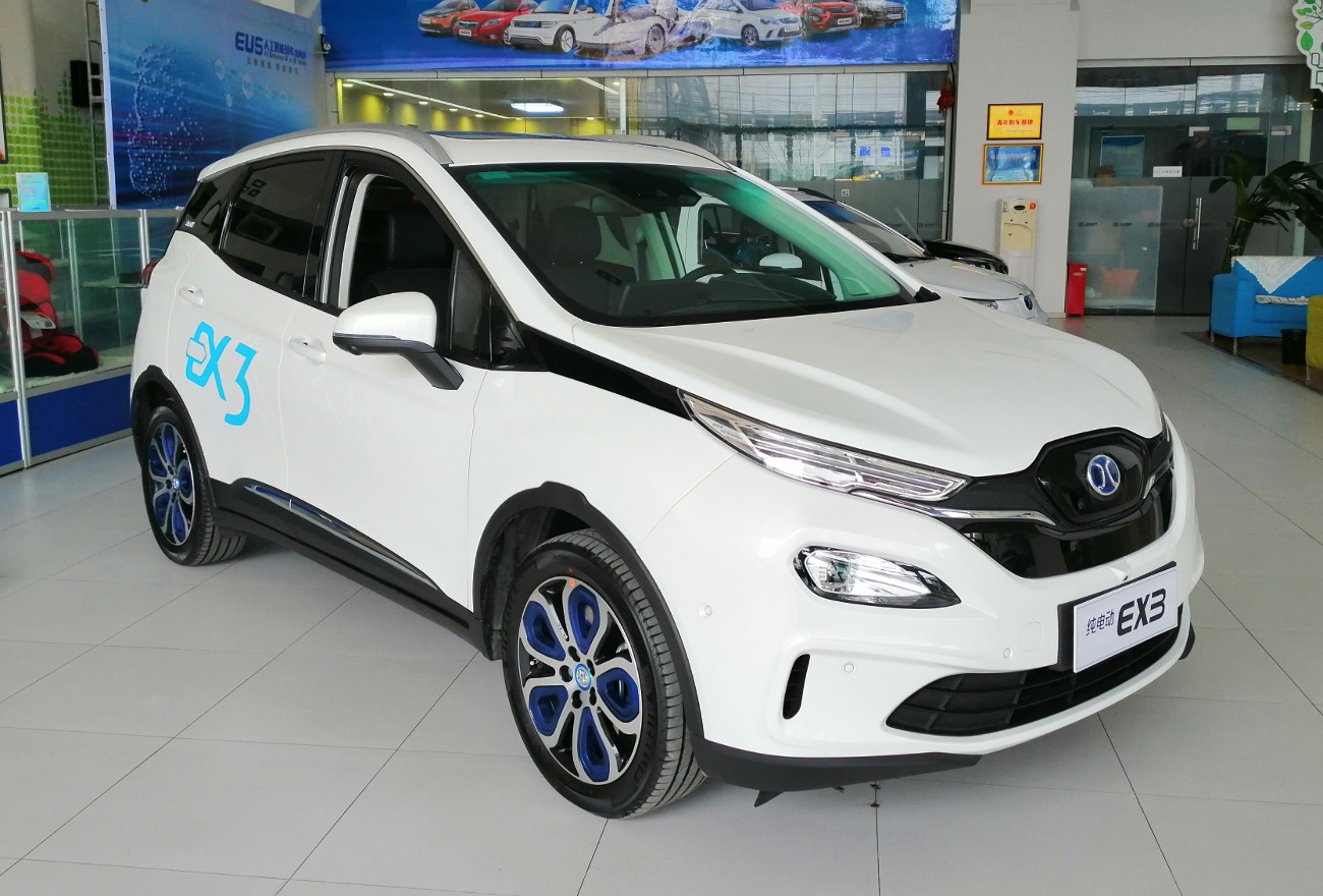 BJEV EX3 photographed in Beijing, China.